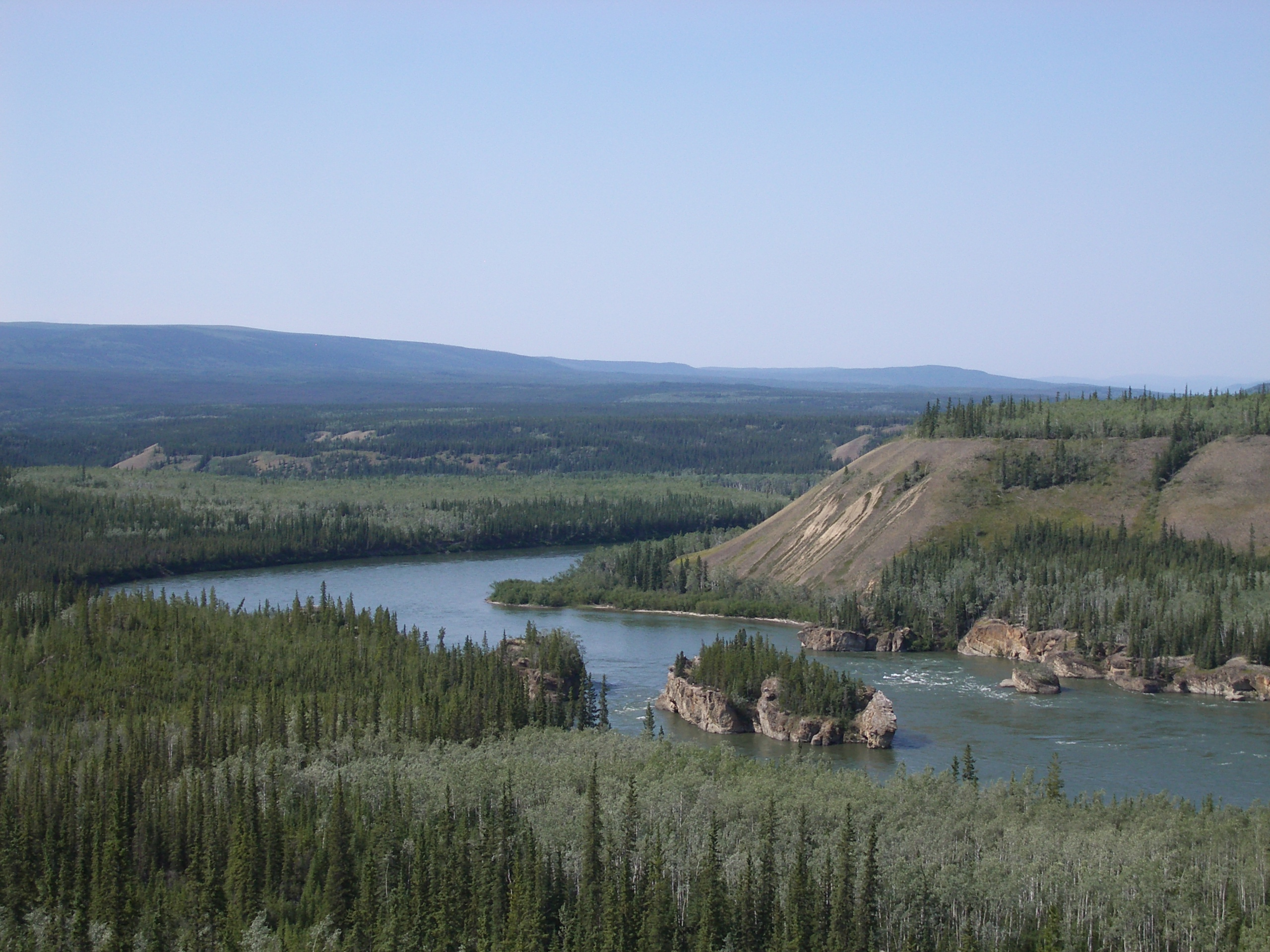 Yukon river